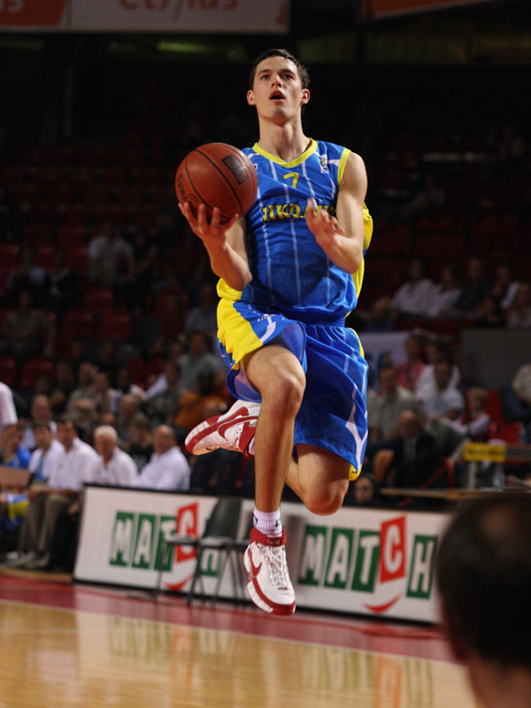 Serhiy Gladyr during the Belgium vs Ukraine game in September, 2008